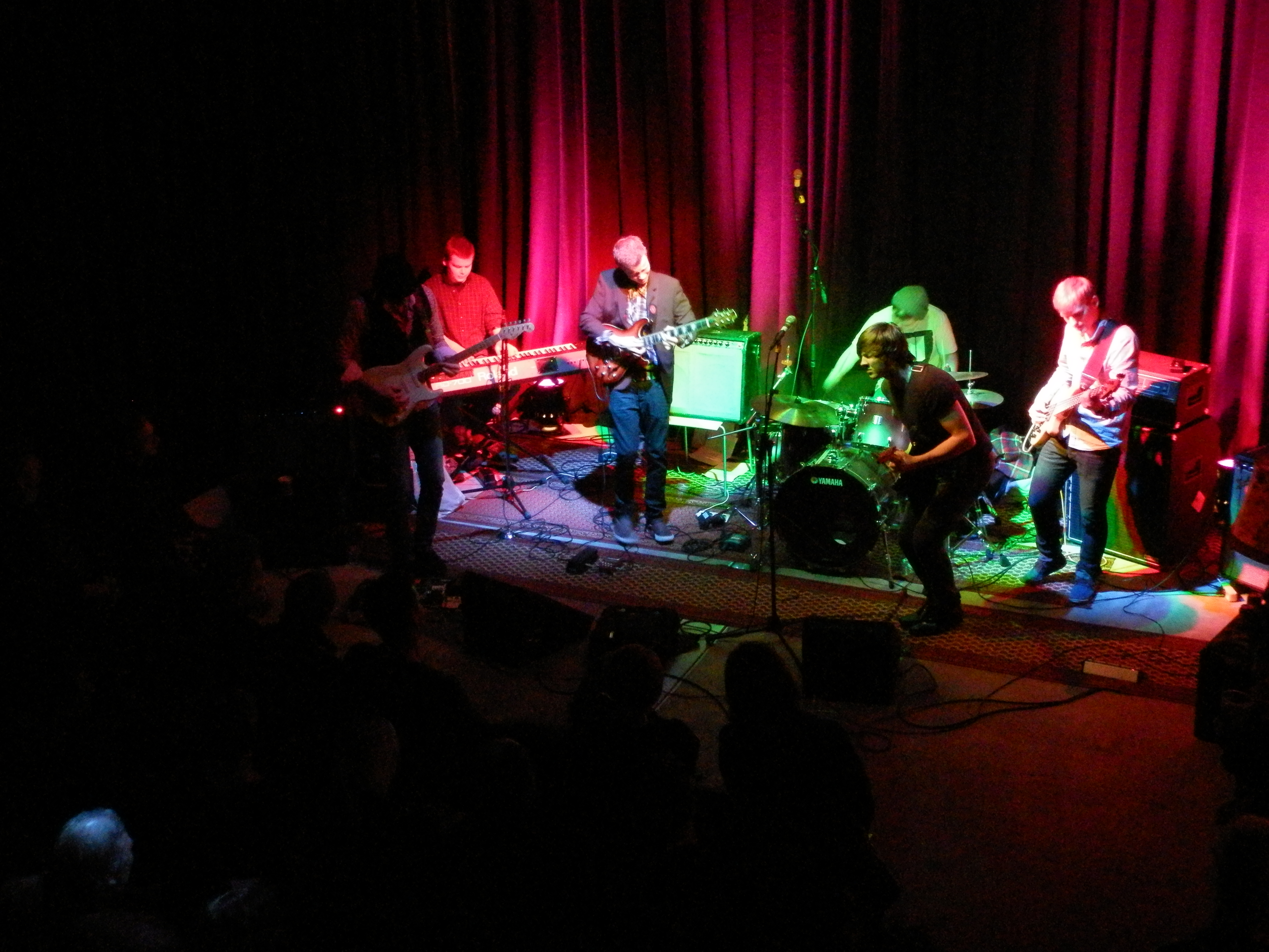 Blueberry Jam Session is a Faroese blues band. This photo was taken at the event Blues Perlan, which was held in Perlan in Tórshavn, Faroe Islands in April 2014. The lead singer of the band is Ragnar Finsson.